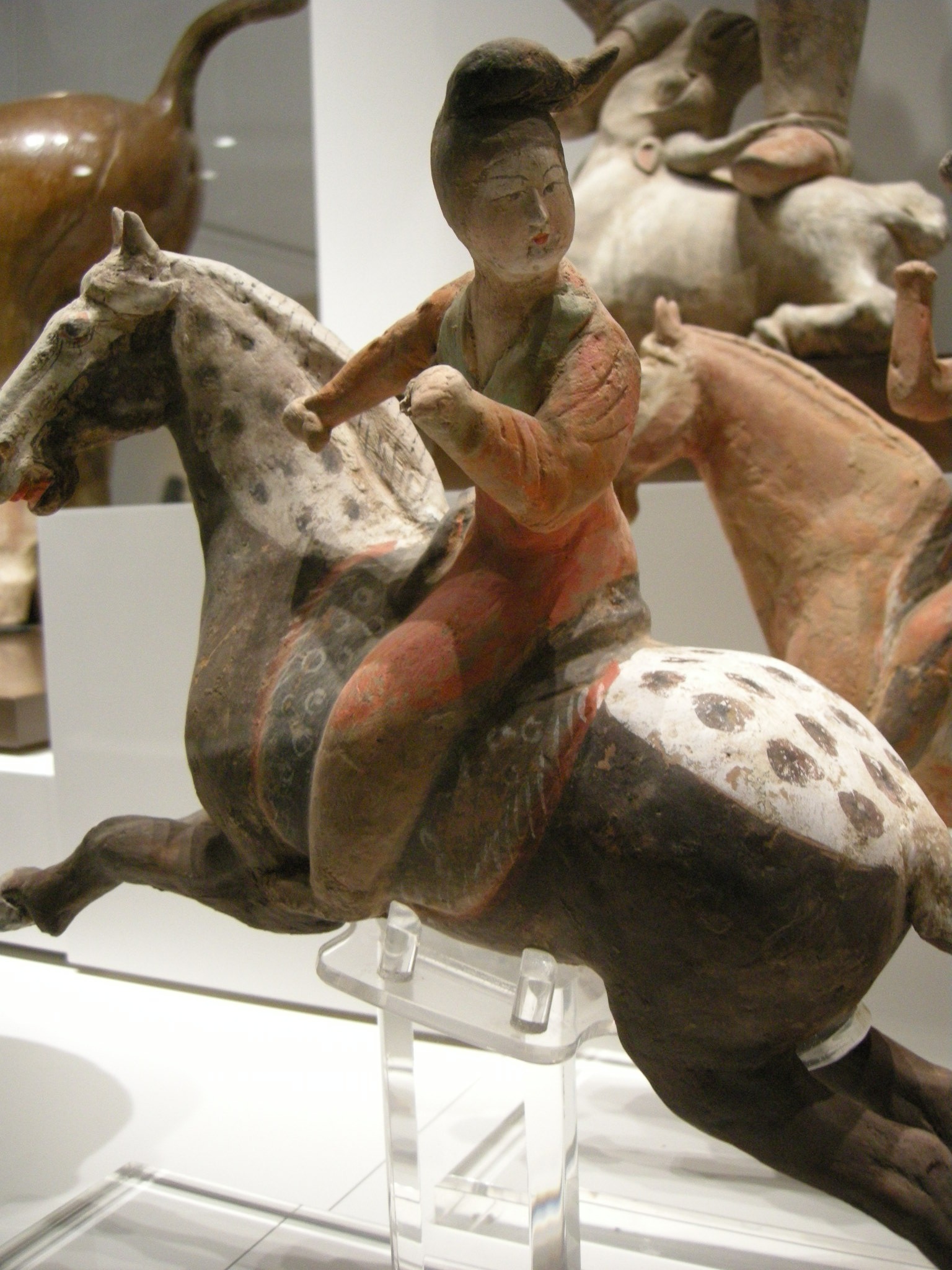 polo player